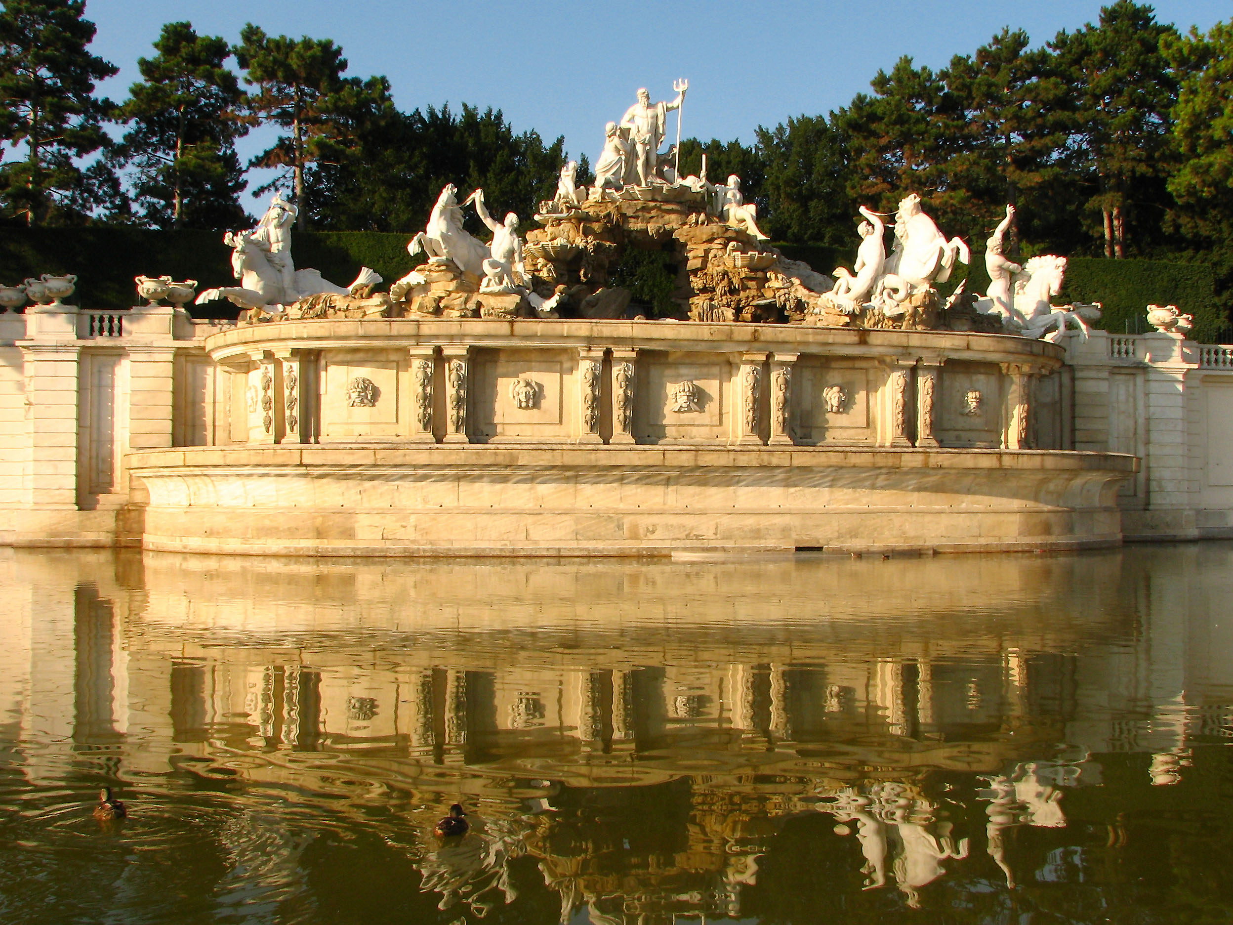 Vienna, Castle of Schoenbrunn, Fountain of Neptune